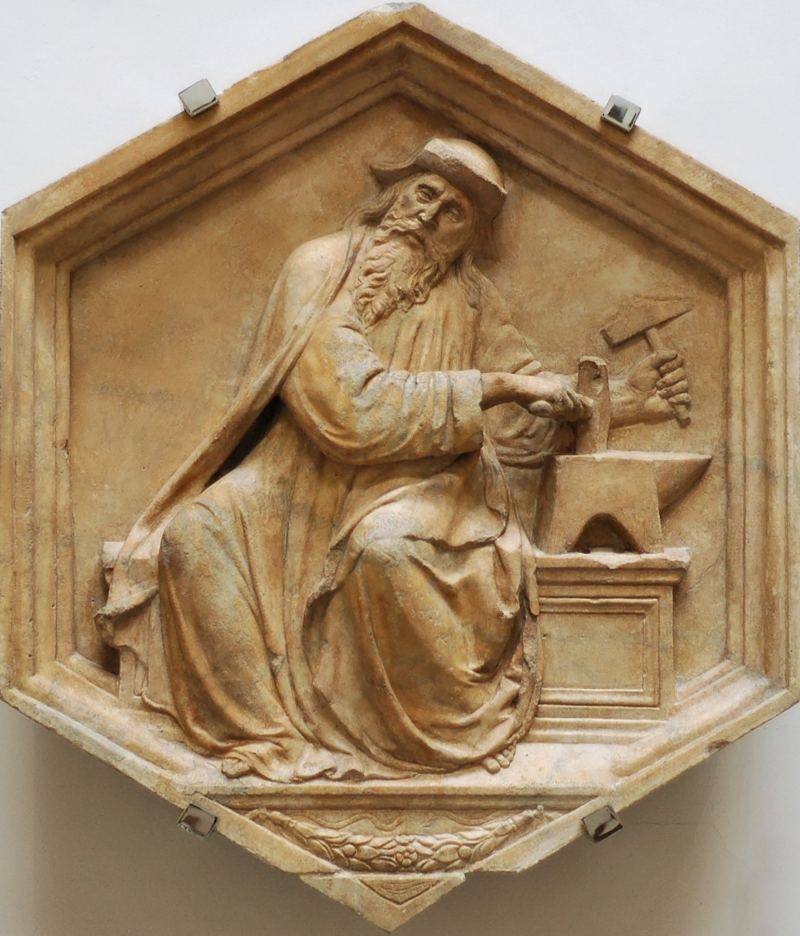 Marble panel from the North side, lower basement of the bell tower of Florence, Italy. Museo dell'Opera del Duomo.